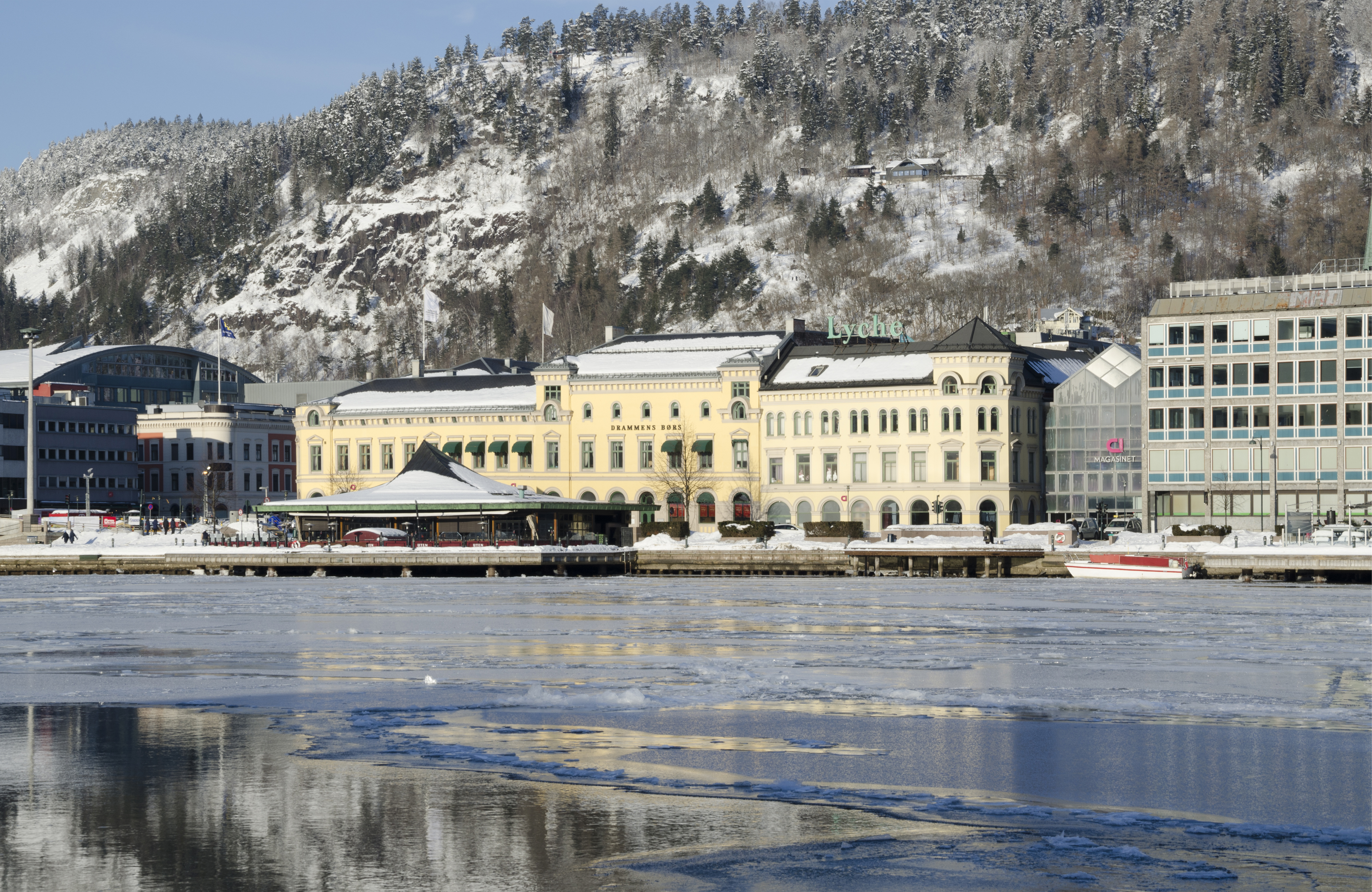 The Drammen goods exchange, constructed 1868-71, defunct after 1988 and since used as a buildings for shops and larger social gatherings.